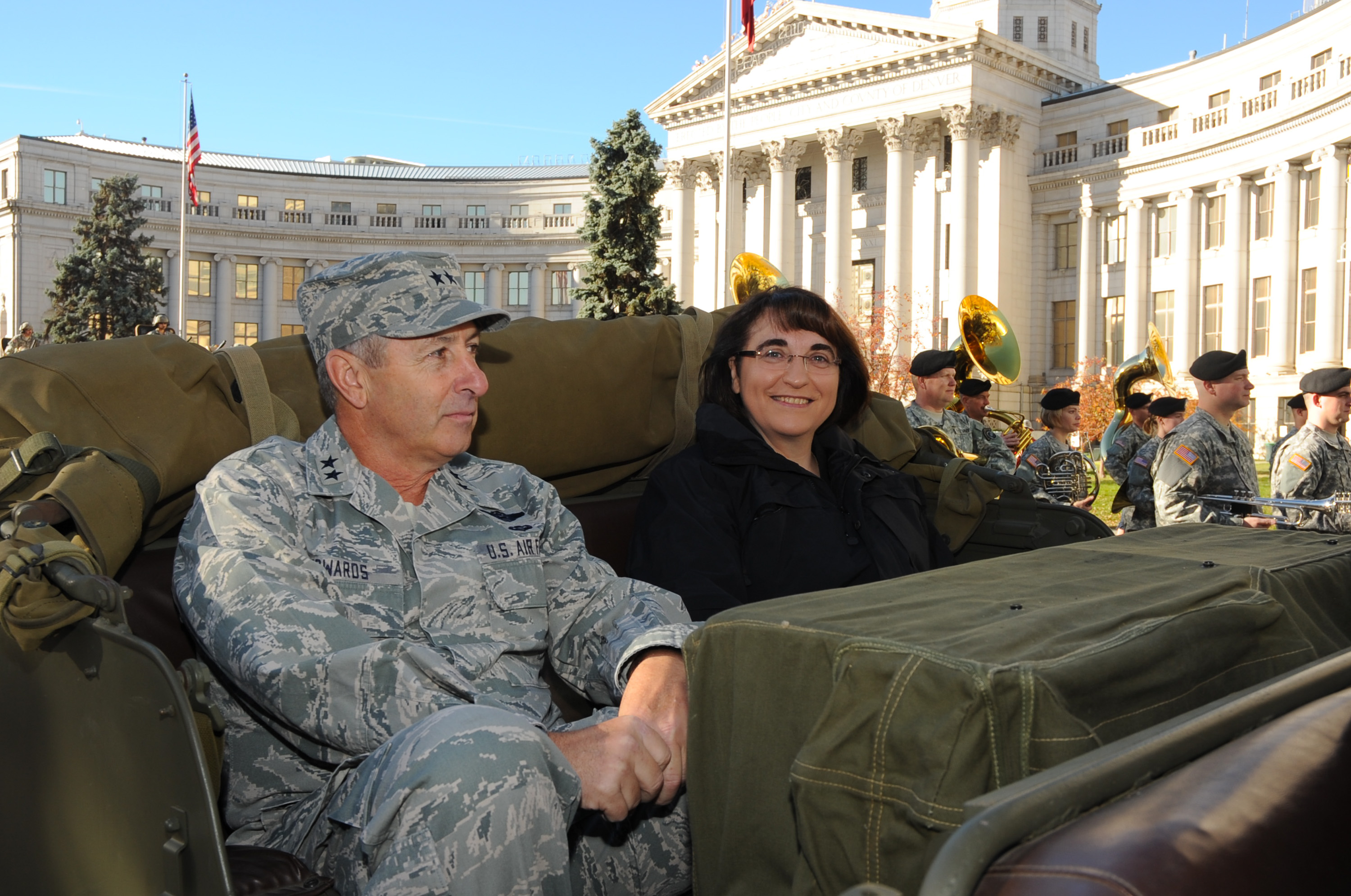 Slovenian Defense Minister Dr. Ljubica Jelusic continued her official visit to the U.S. on Nov. 6, 2010 by participating in the 2010 Denver Veterans Day parade in to honor the nation's veterans and the 150th anniversary of the Colorado National Guard. Also in the historic military vehicle is Adjutant General Maj. Gen. H. Michael Edwards, commander of the Colorado National Guard. Slovenia has been a partner nation with Colorado for 16 years. Colorado National Guard and Slovenian soldiers are currently working together in Afghanistan to train elements of the Afgan National Army to help improve security and stability in that region.